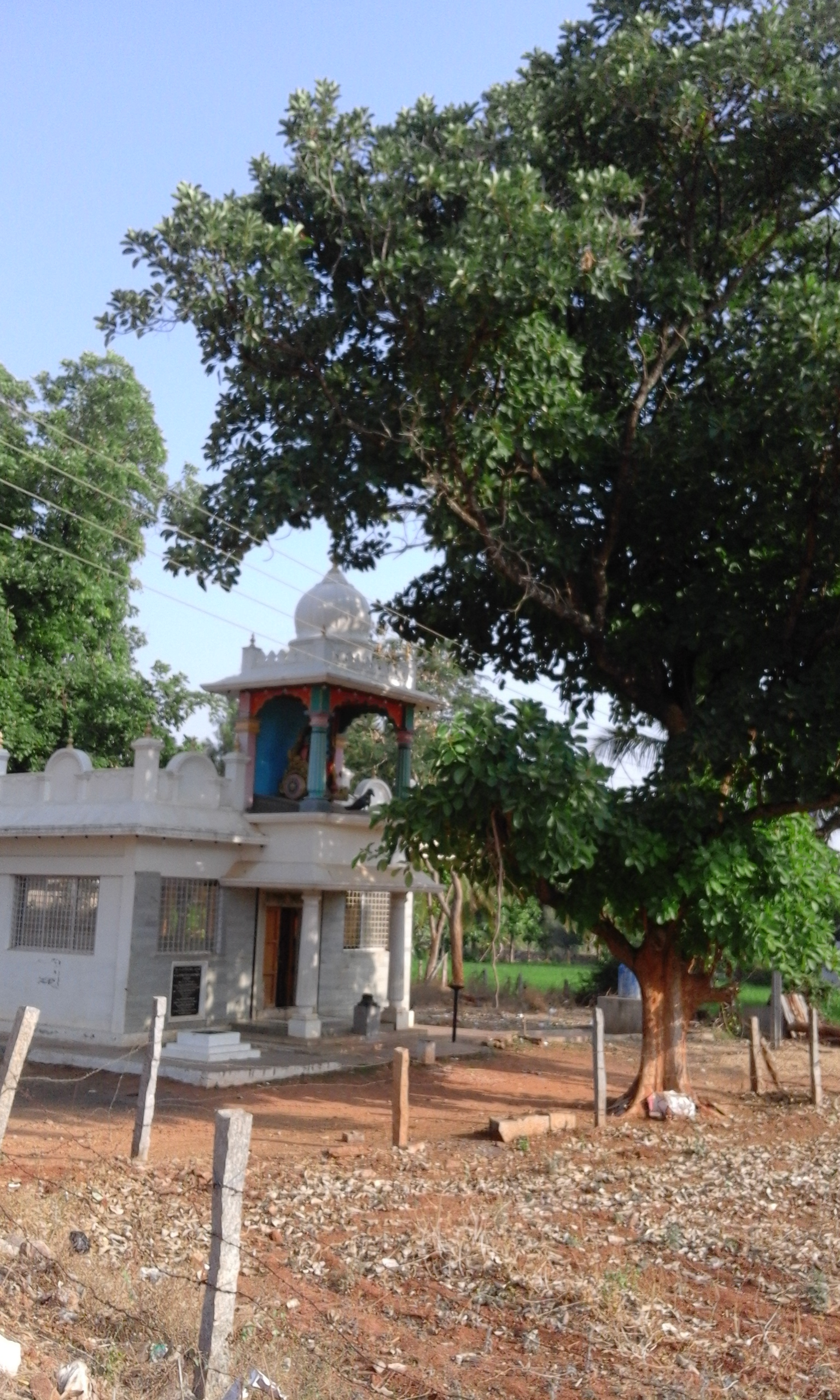 Lingam Budhi Lake, Mysore, India.